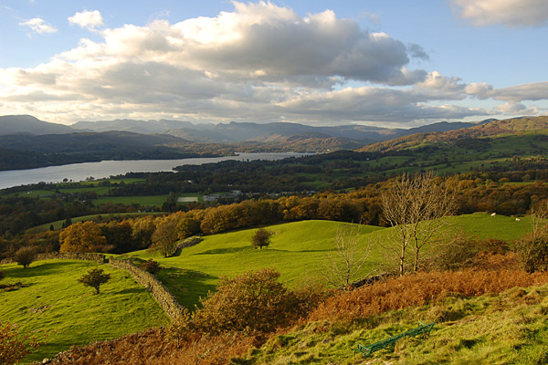 Original Photograph by Mat Dumont (user:Matdumont). View towards Lake Windermere from Orrest Head Summit, November 2006.